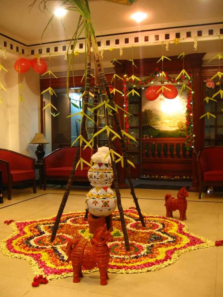 An office in Tamil Nadu decorated for the festival of Thai Pongal. The pots, sugarcane branches with leaves and flowers are traditional parts of the Pongal celebration. In rural areas of Tamil Nadu and northern and eastern Sri Lanka, the pots would be on an open fire with milk and traditional pongal food being boiled in them.